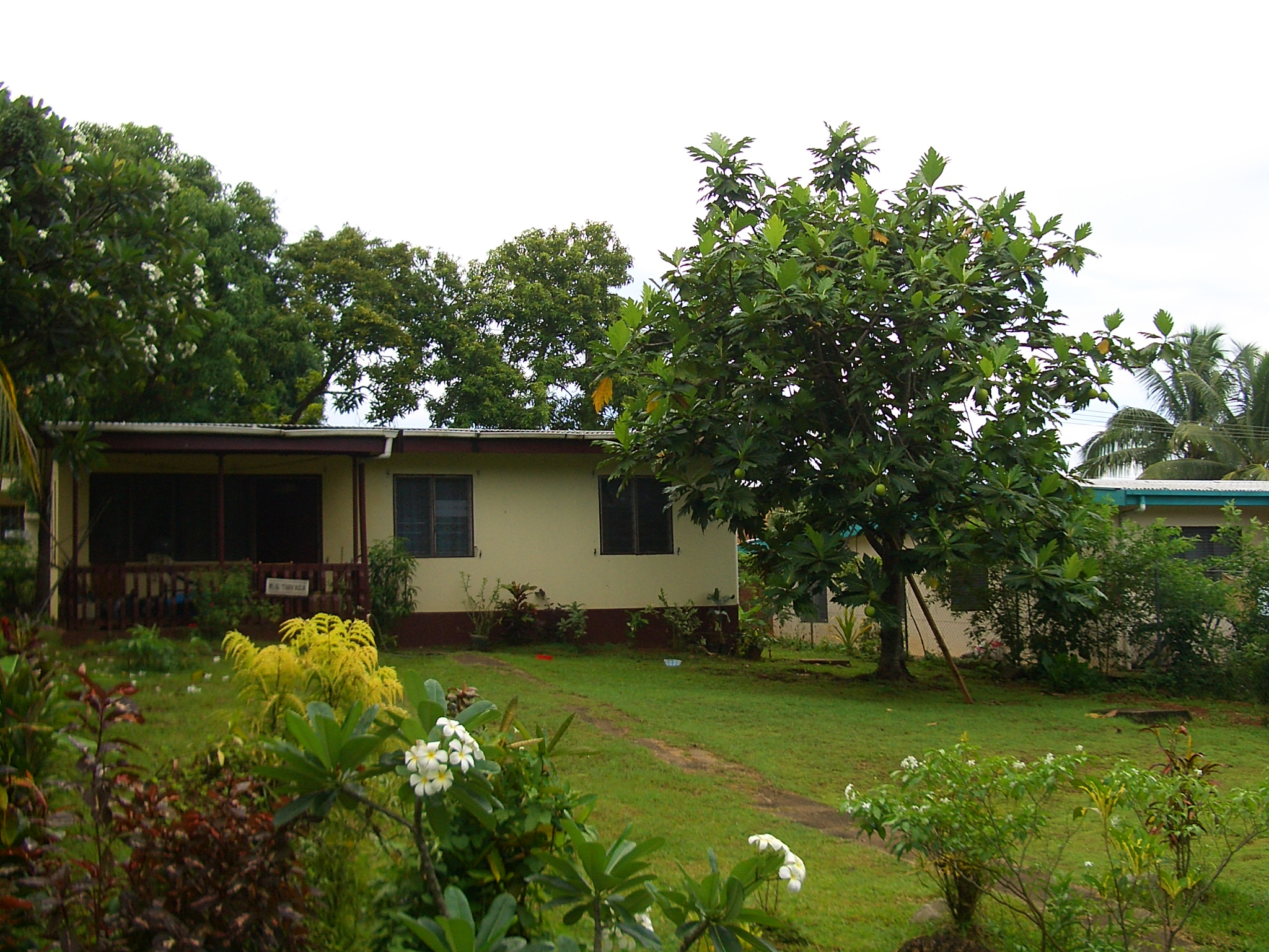 A luxuriant fruit tree by a house in Nadi, Fiji